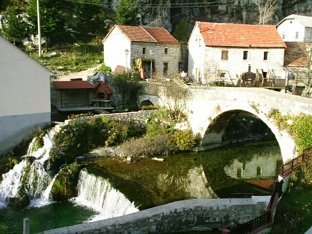 A mill on the Bistrica River. Town of Livno in the southern Bosnia-Herzegovina